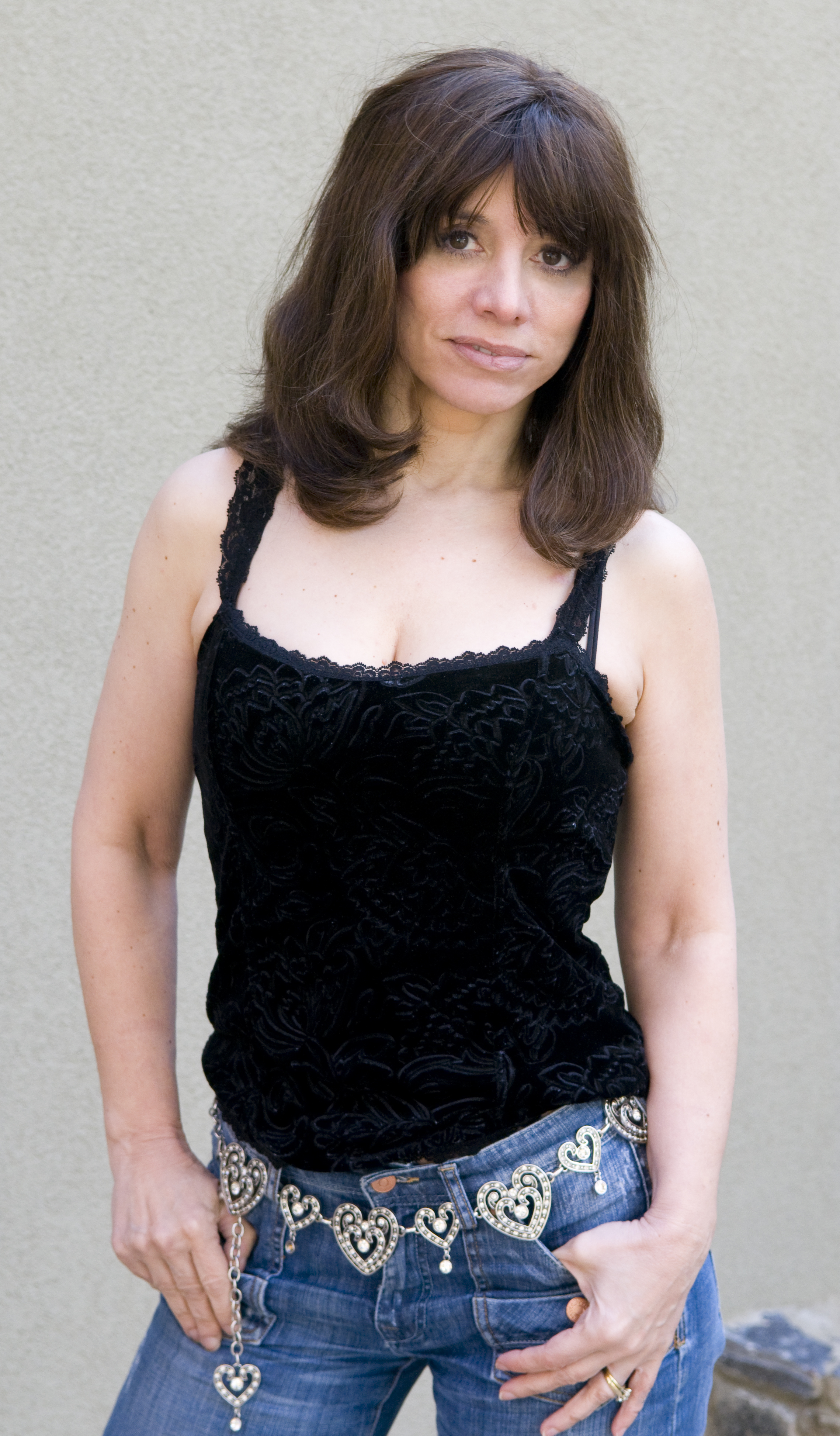 Photo of Catherine Asaro. Permission email will be sent by Catherine Asaro to . Author: Stephen Baranovics Owner: Catherine Asaro